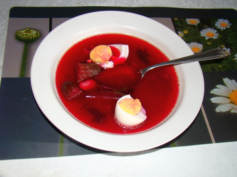 Beetroot soup with vegetables and hard-boiled eggs, Sanok